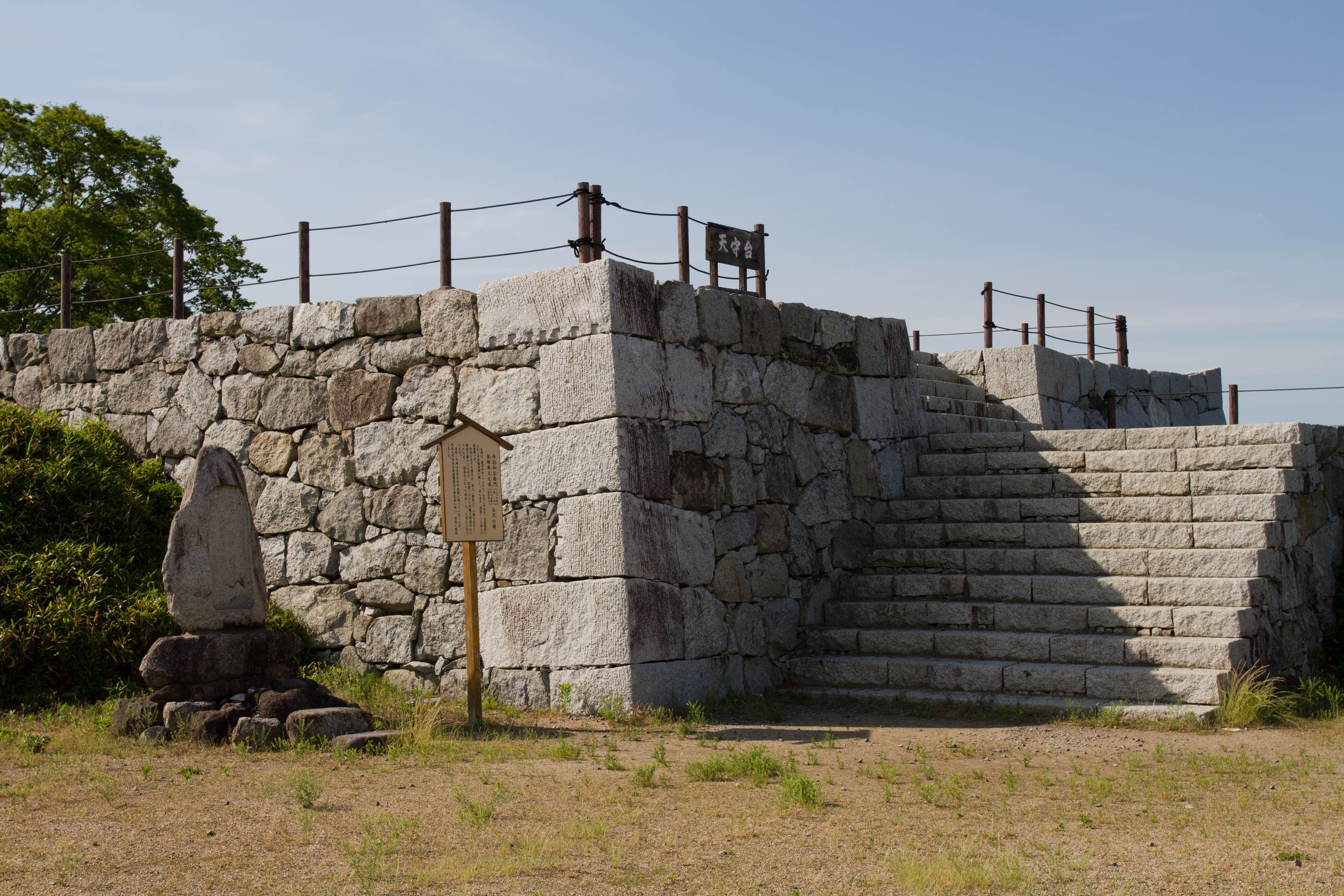 Nihonmatsu Castle, Keep Tower Base